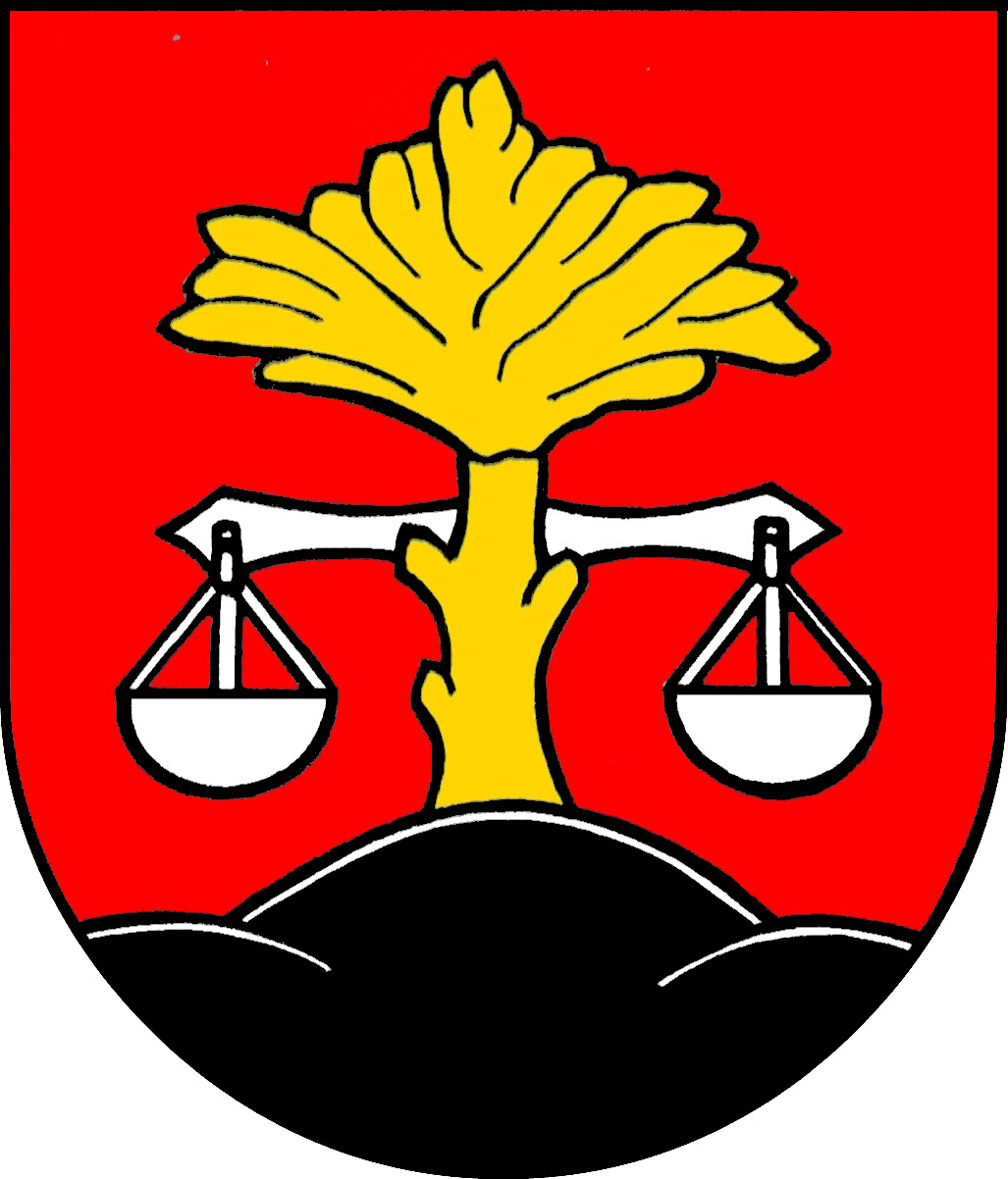 Municipal coat of arms of Bělá pod Pradědem village, Jeseník District, Czech Republic.